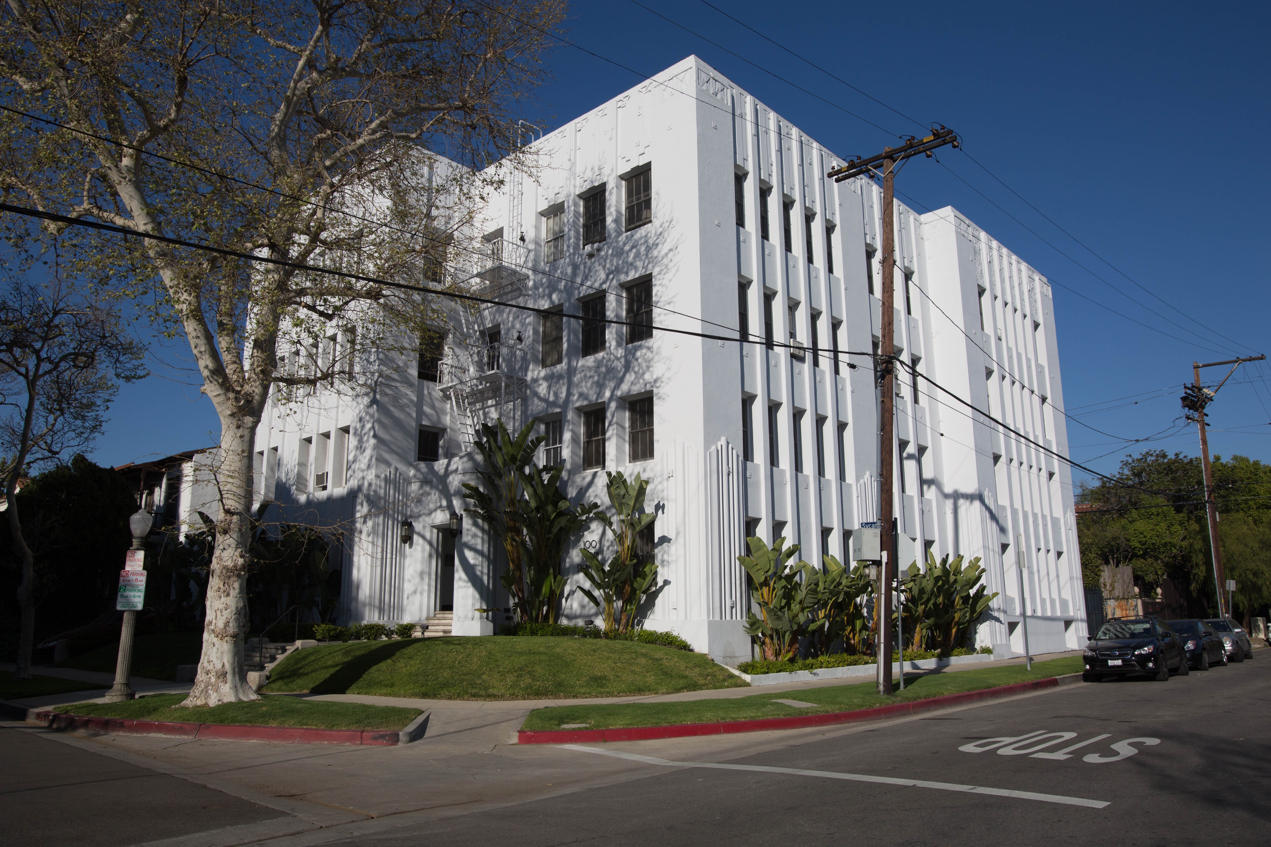 A picture taken of the exterior of the historical significant building located at 100 N. Sycamore Ave.